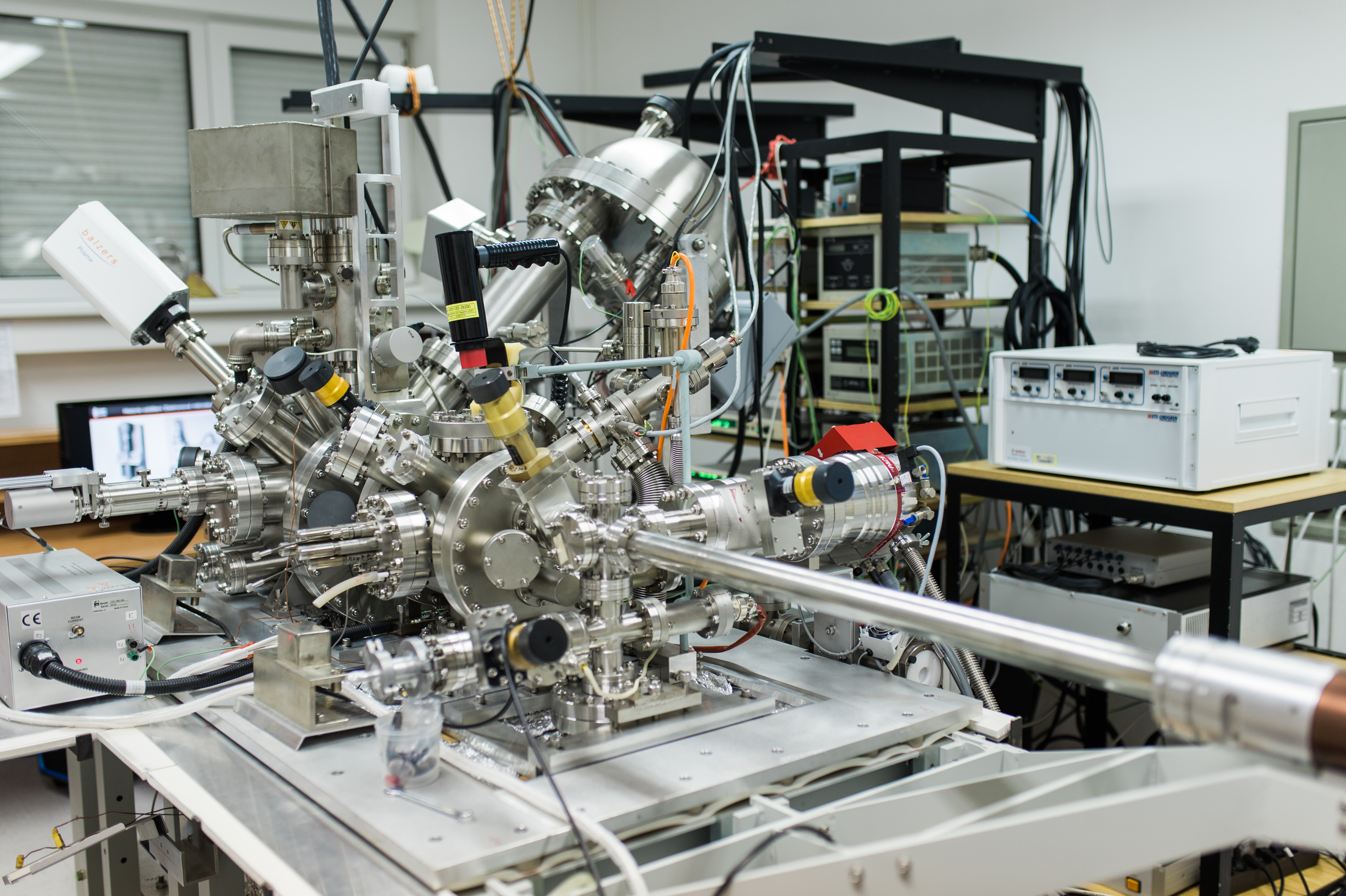 Electron microscope Mamut at the Institute of Scientific Instruments of the Czech Academy of Science in Brno.